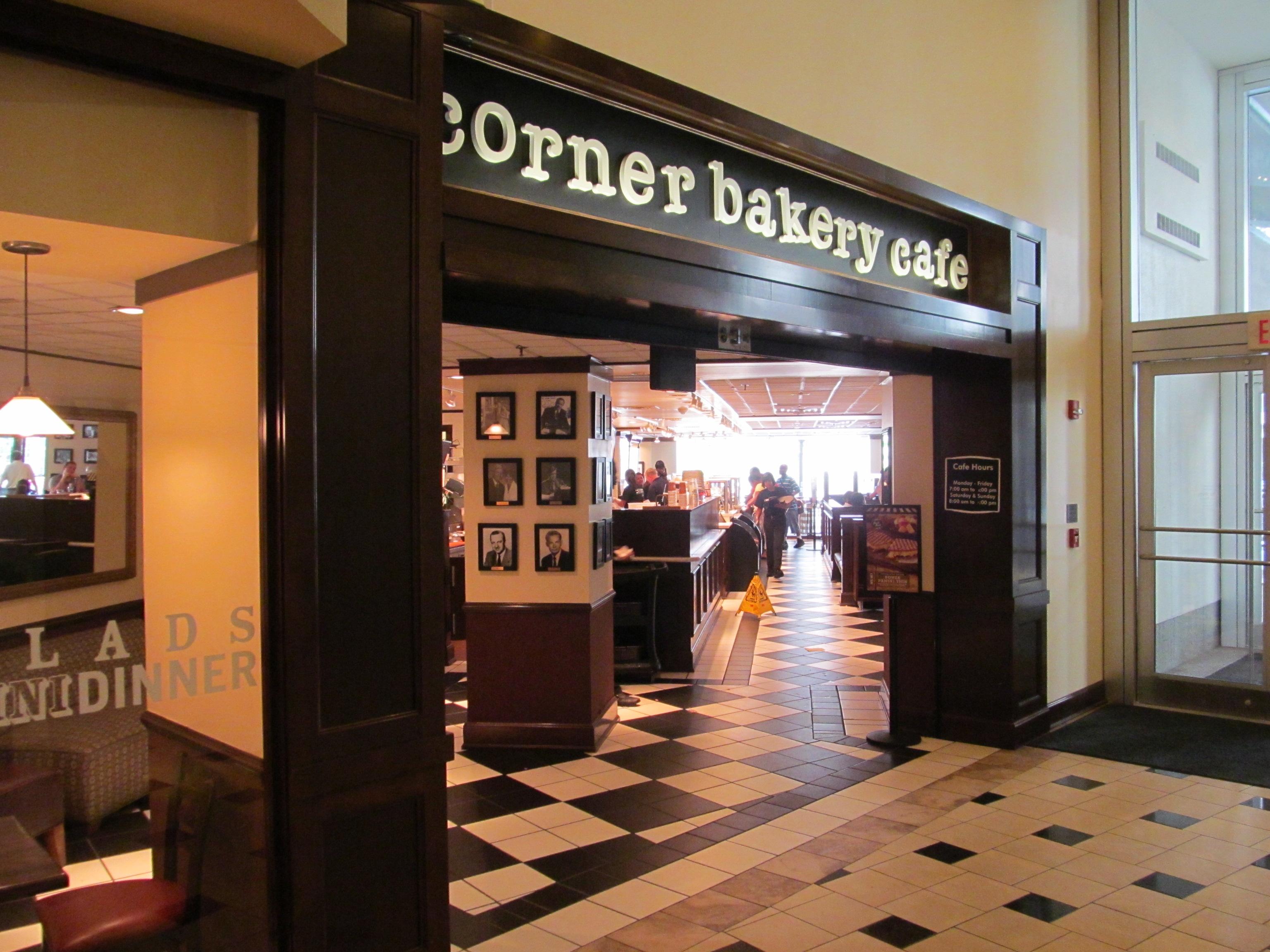 Corner Bakery Cafe on 14th, Washington D.C.